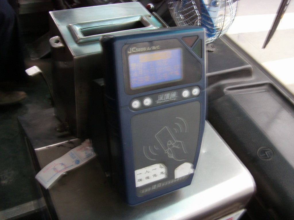 A Shenzhen Tong reader on a bus,which operated by Shenzhen Bus Group. 中文（中国大陆）: 在一辆深圳巴士集团的公共汽车上的深圳通读卡器。